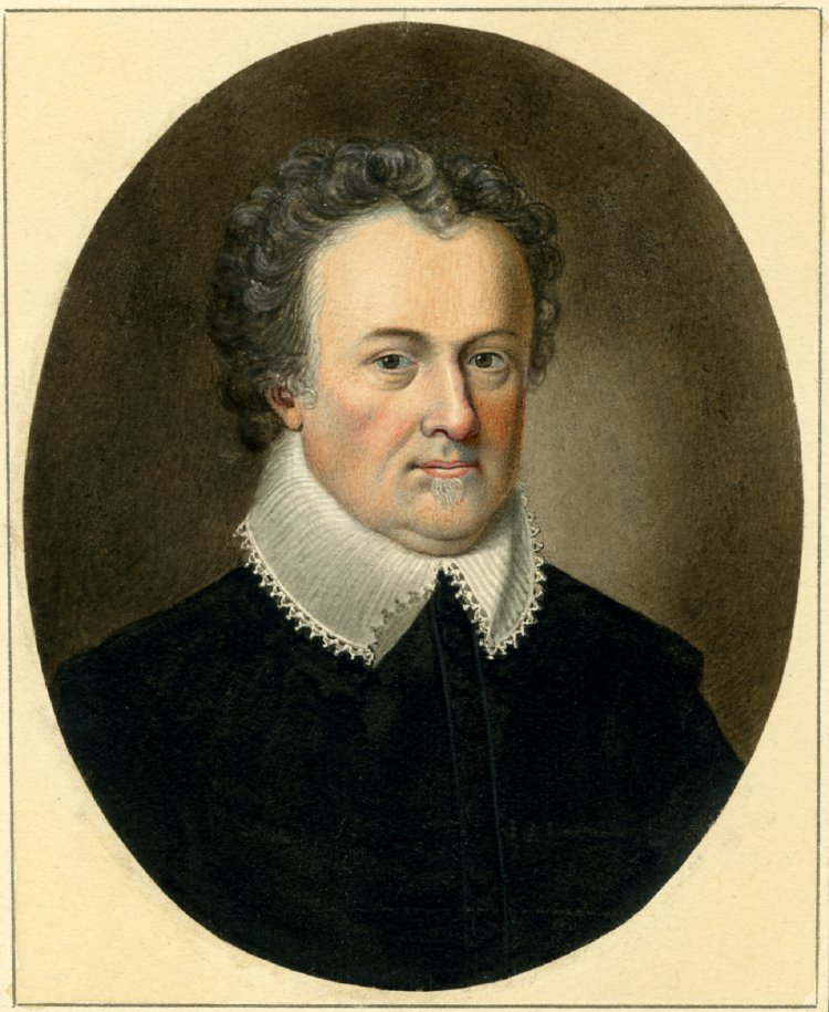 Portrait of the English poet Michael Drayton, drawing with watercolour and bodycolour, by Sylvester Harding. 128 mm x 104 mm. Courtesy of the British Museum, London.